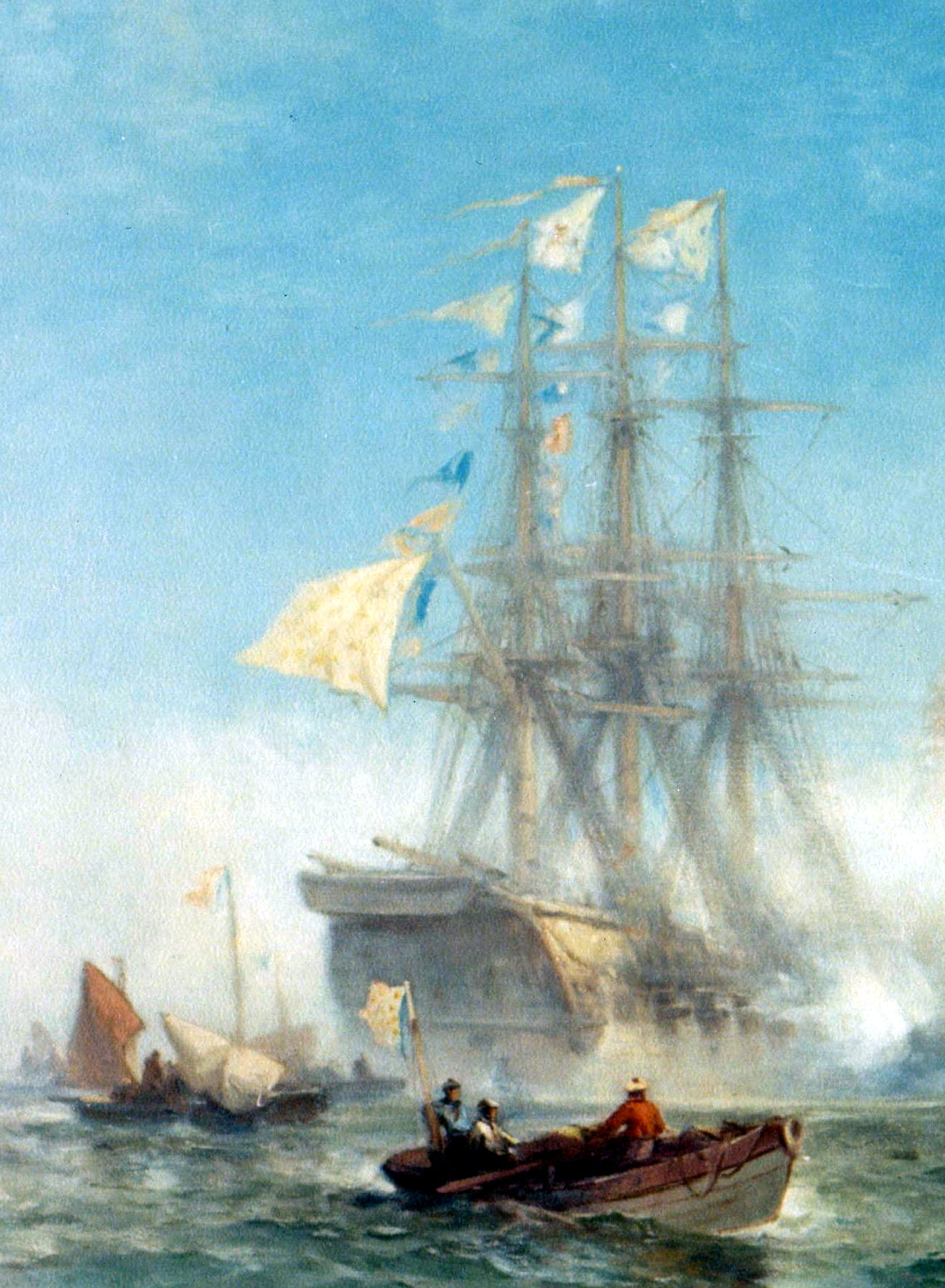 Detail of Robuste on "First Recognition of the American Flag by a Foreign Government", 14 February 1778